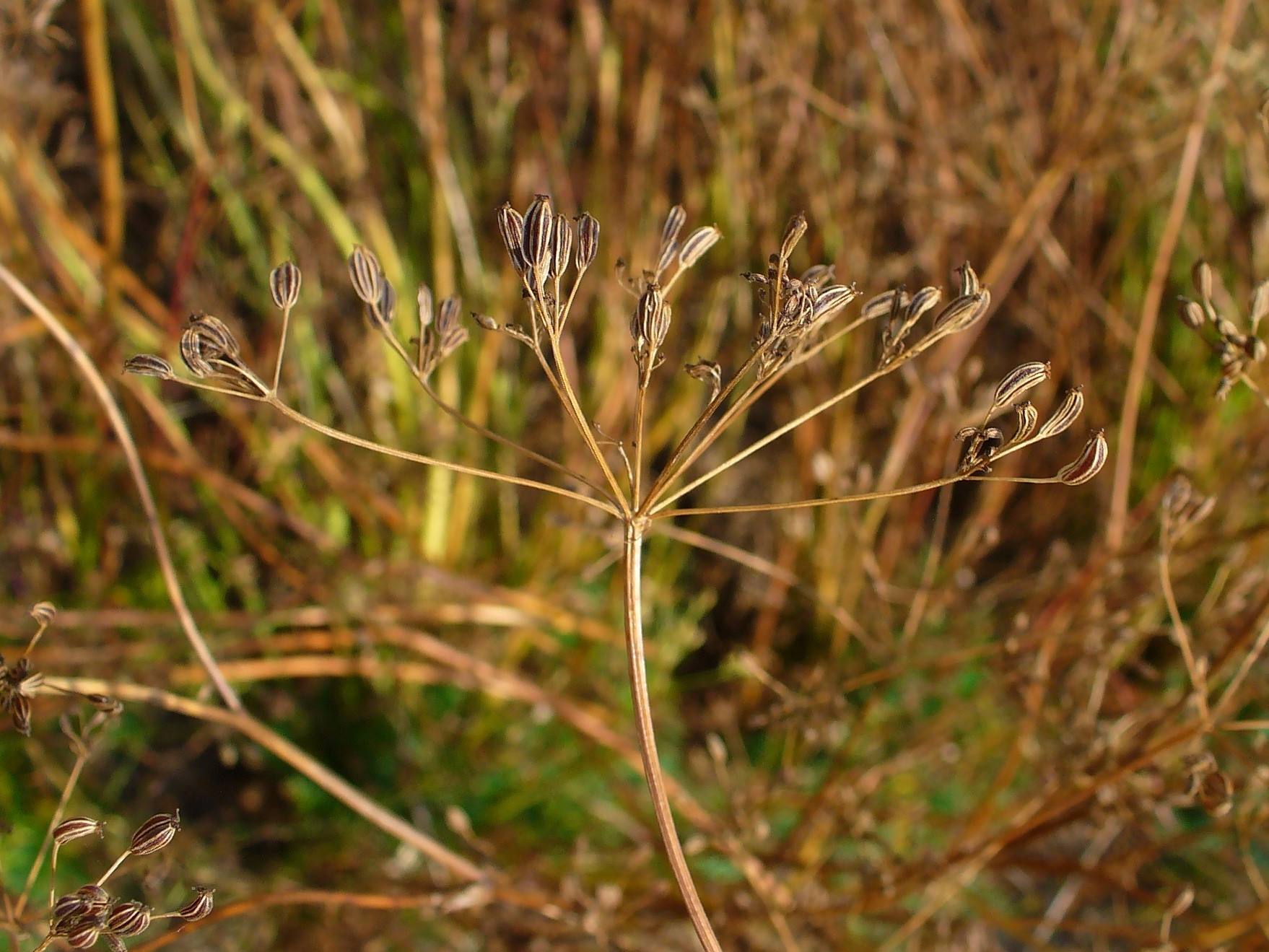 Carum carvi, Apiaceae, Caraway, Meridian Fennel, Persian Cumin, infrutescence; Botanical Garden KIT, Karlsruhe, Germany. The dried, ripe fruits are used in homeopathy as remedy: Carum carvi (Caru.)